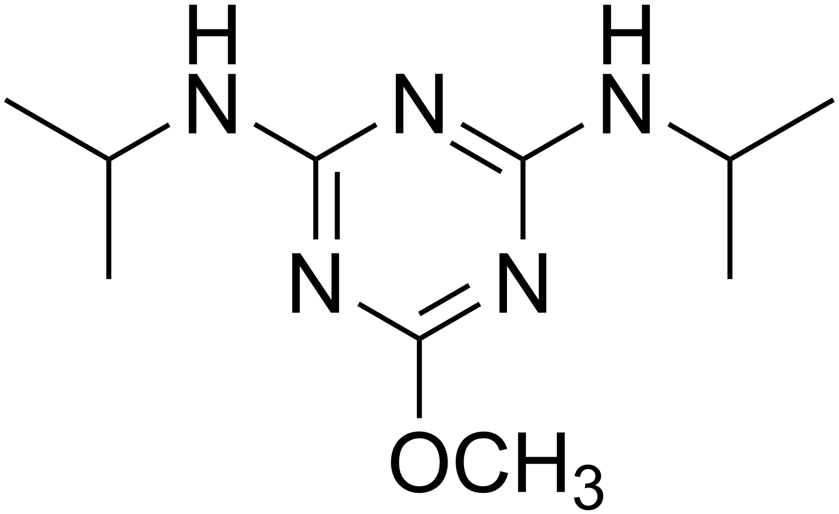 chemical structure of prometon